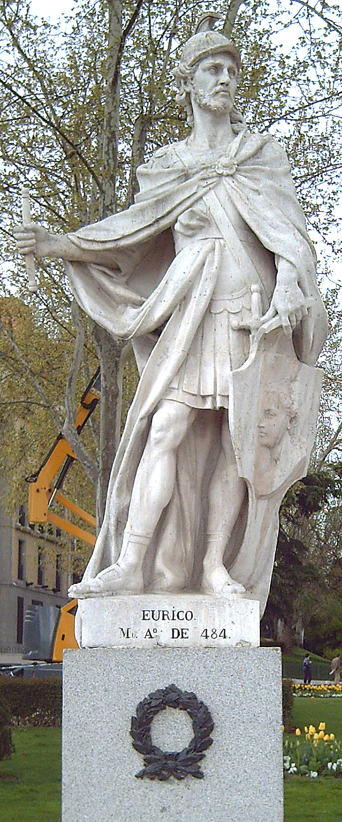 Statue of Euric († 484) at the Plaza de Oriente (square) in Madrid (Spain). Sculpted in white stone by Juan Porcel (born c.1700) between 1750 and 1753.